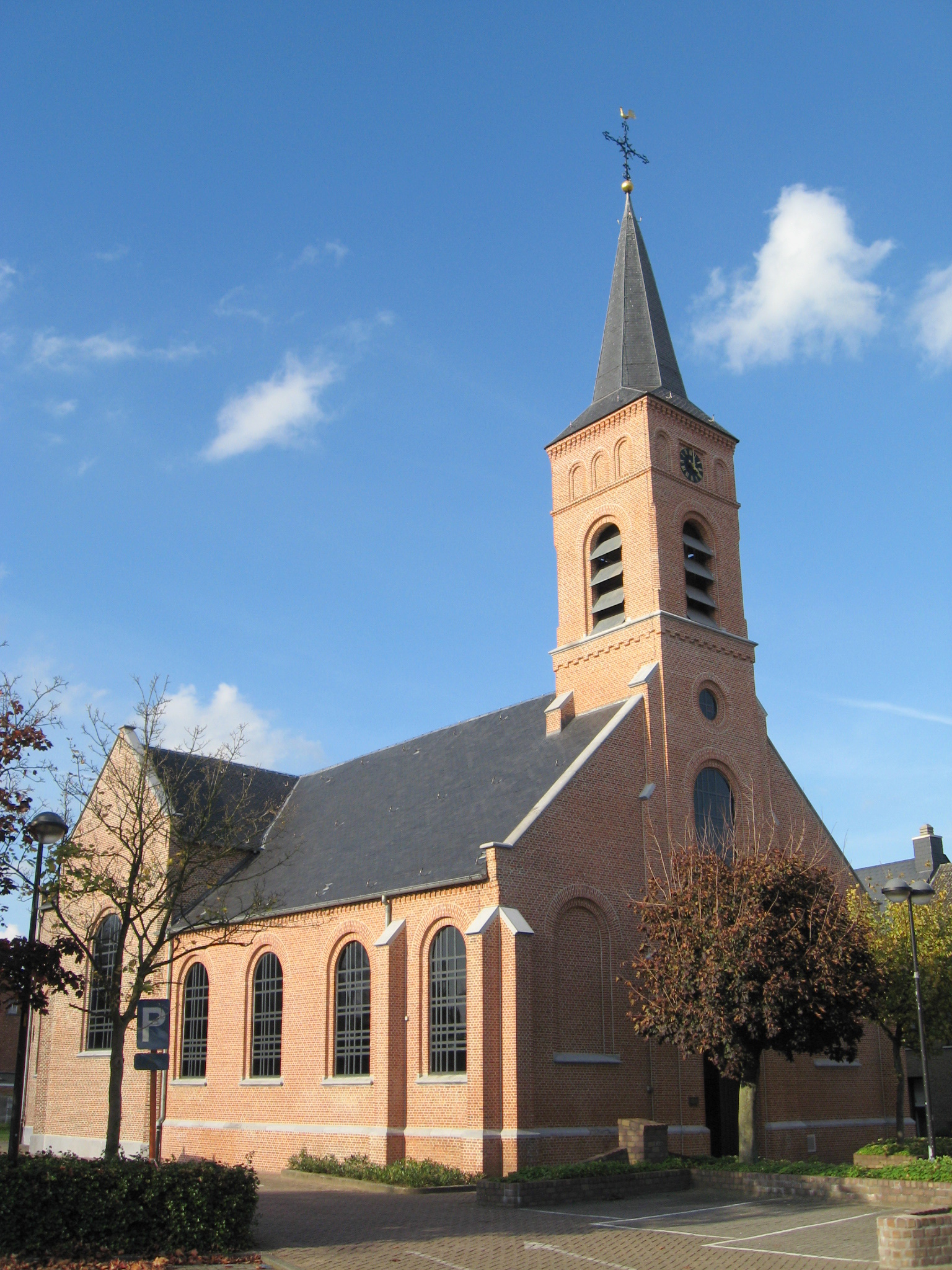 Church of the Assumption of the Blessed Virgin Mary in Voortkapel, Westerlo, Antwerp, Belgium